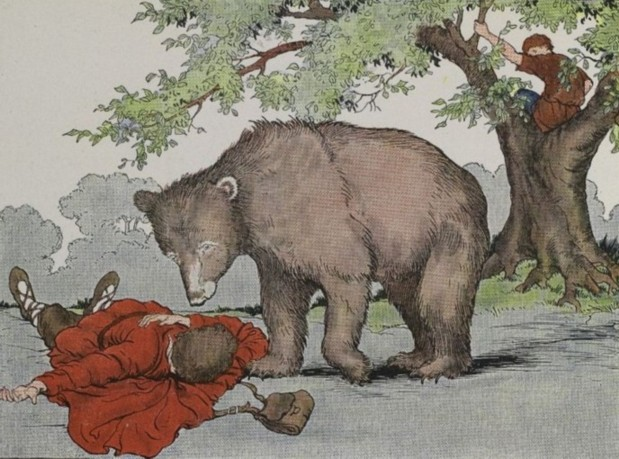 The Bear and the Travelers", from Aesop's Fables